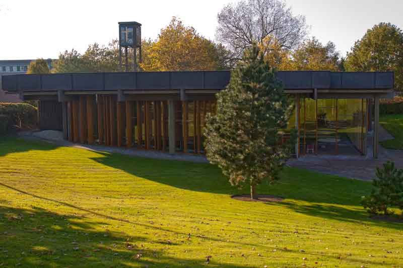 Hannerup Kirke, church in Fredericia, Denmark